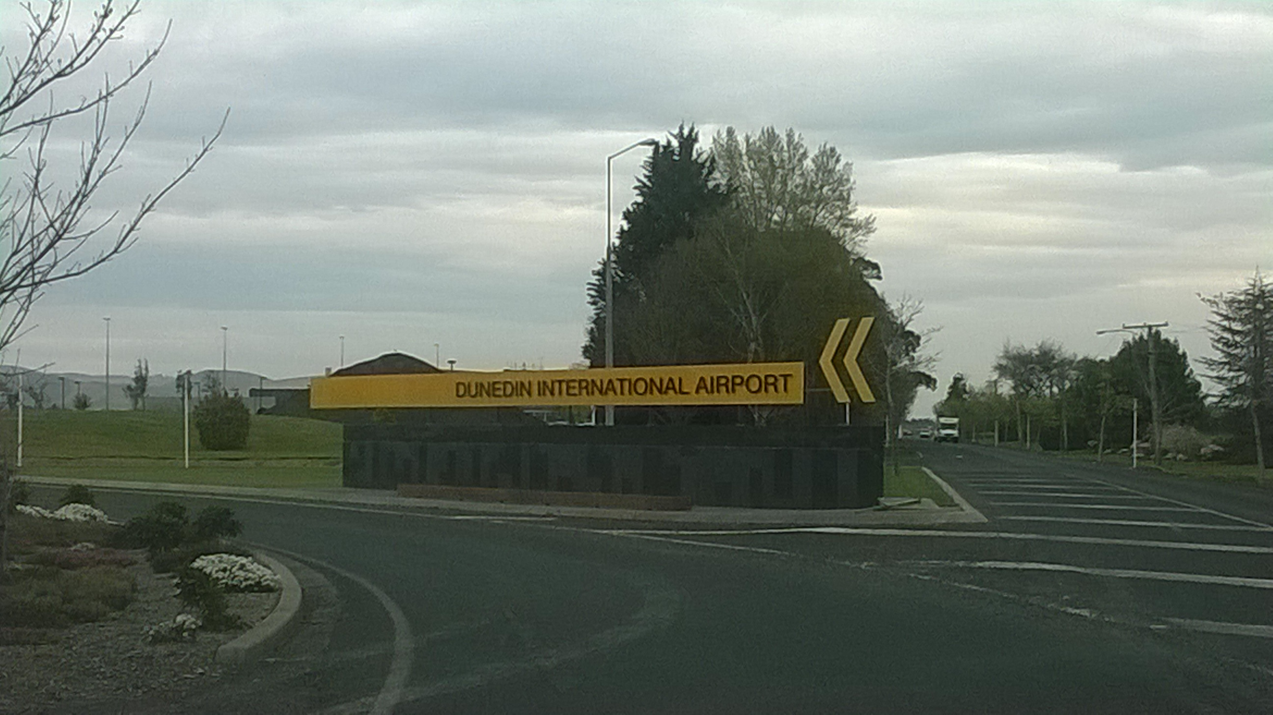 Dunedin Airport welcome sign, 2014